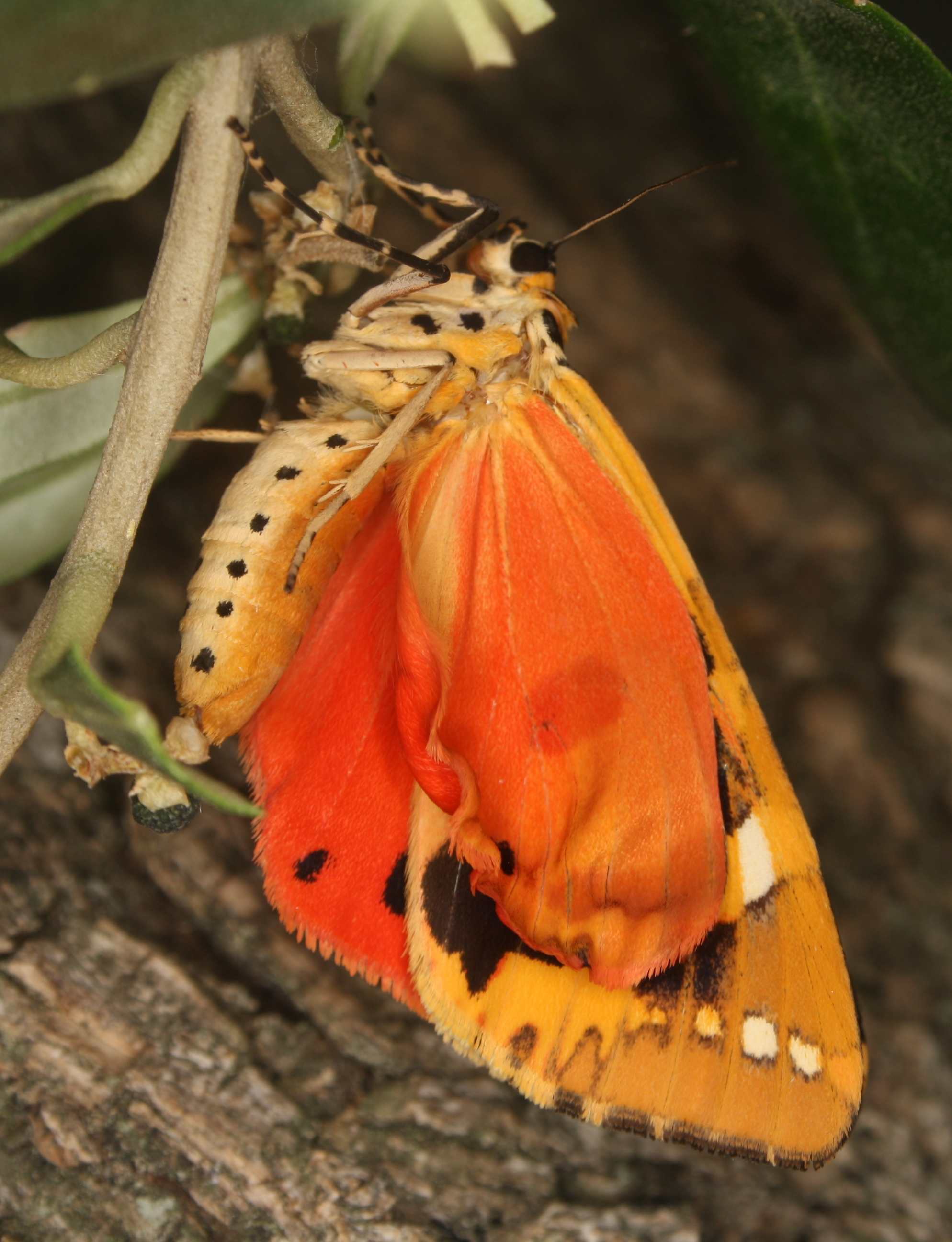 A Jersey Tiger (Euplagia quadripunctaria) freshly after hatching from the pupa.